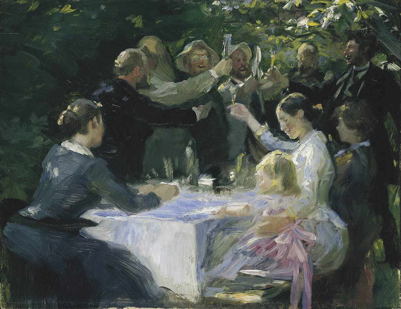 Study for Hip hip hurra!